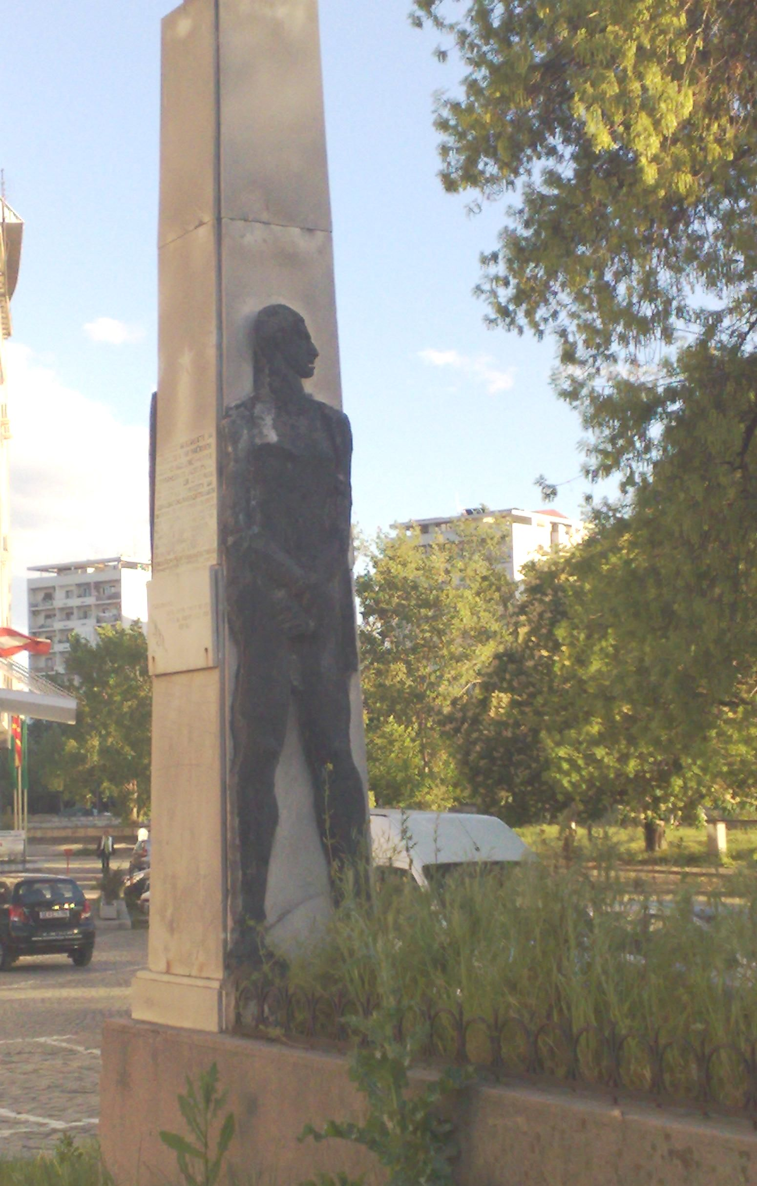 Monument of the fallen for liberty - Skopje, Republic of Macedonia.